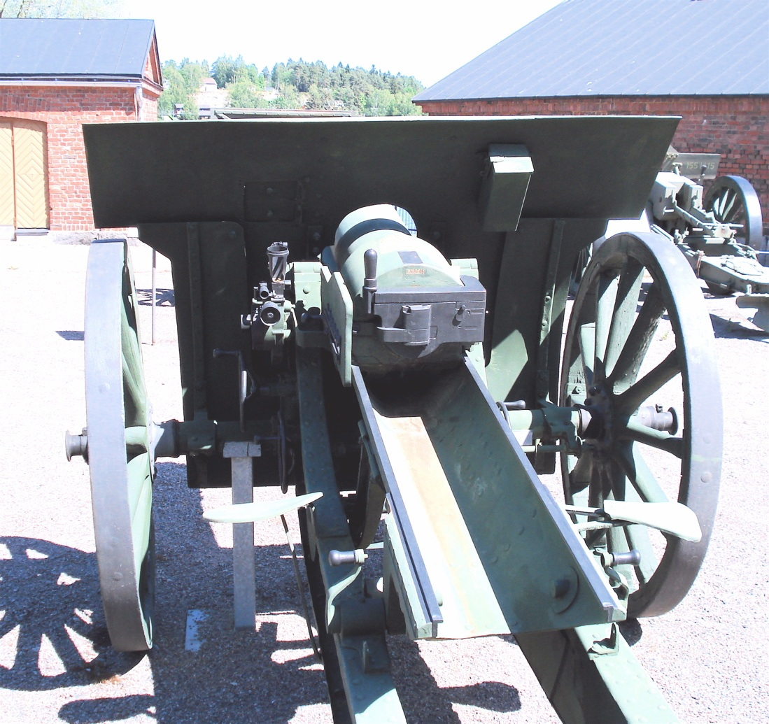 Russian 107 mm M1910 gun, displayed in Hämeenlinna Artillery Museum. This particular gun was manufactured by Putilov in 1916. Photo taken on June 18, 2006. Source: Photo by me, User:Balcer.